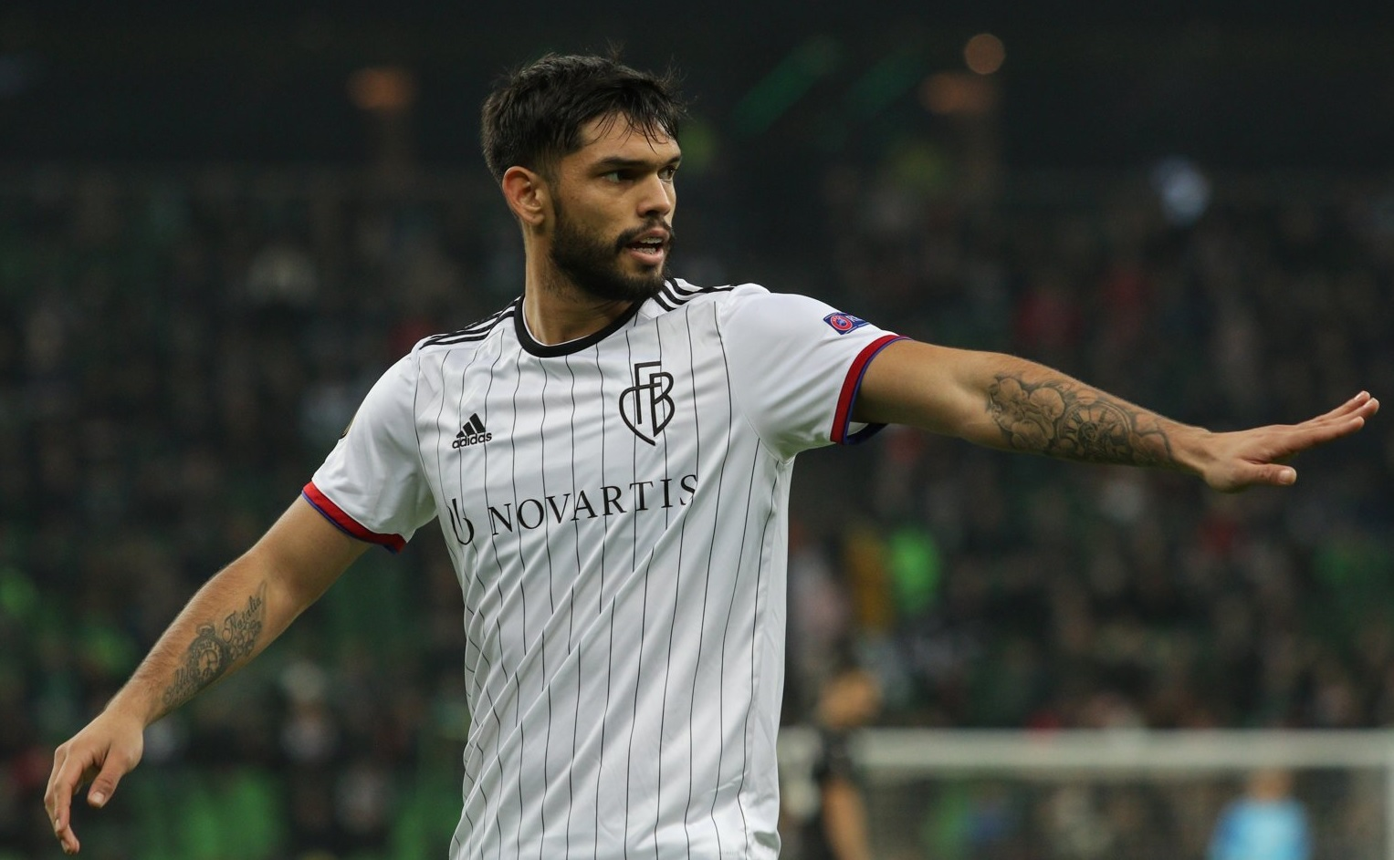 Omar Alderete with FC Basel in an Europa League game against FC Krasnodar.